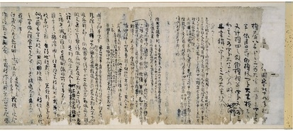 Manual on Courtly Etiquette, Volume 10 (稿本北山抄, kōhon Hokuzanshō)